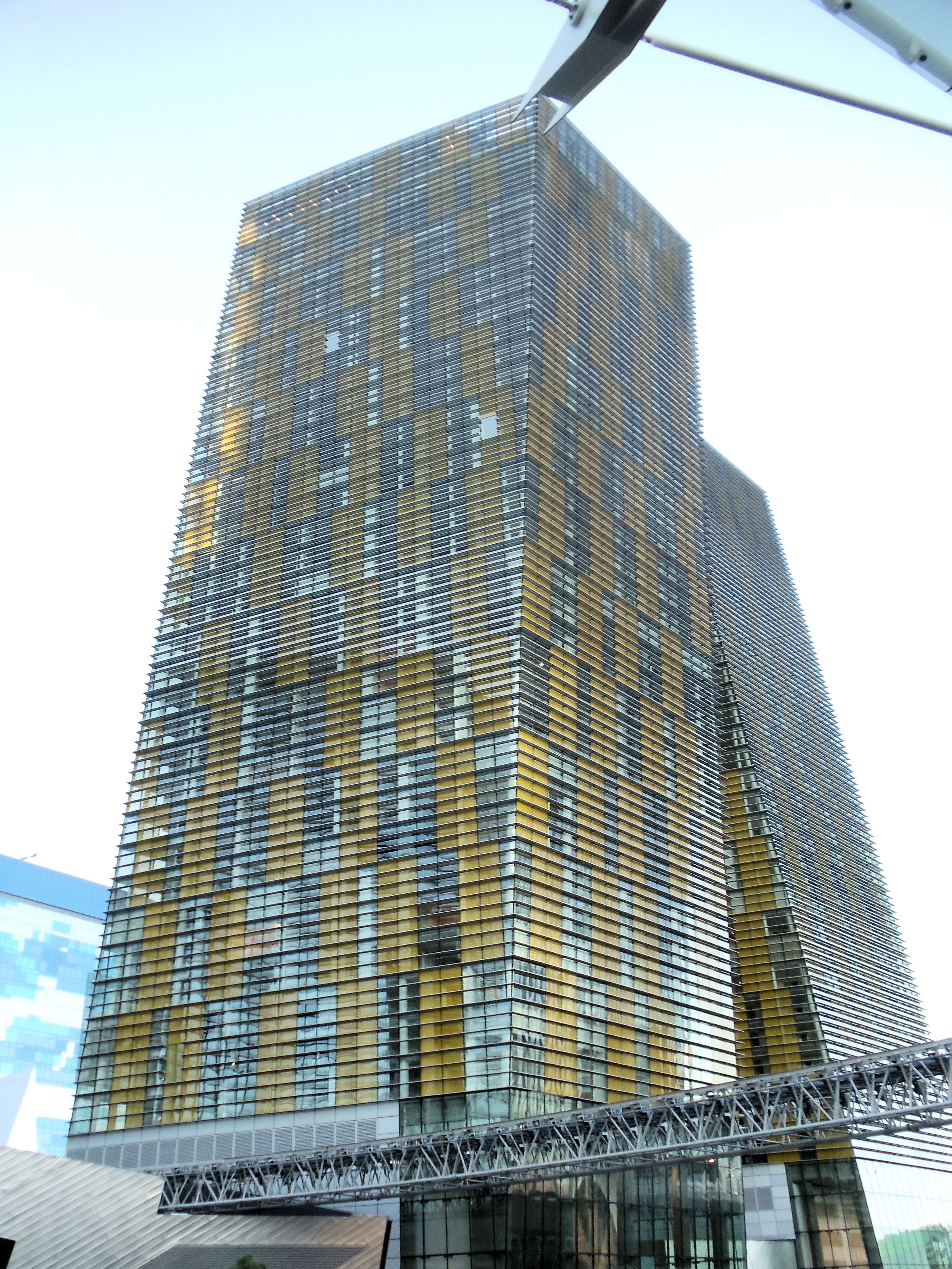 Artfully inclined at dramatic opposing angles, Veer Towers is the new pair of arresting residential icons in the hub of CityCenter Two 37-story silhouetted glass towers with approximately 335 residences each rise from Crystals, CityCenter's spectacular retail and entertainment district, giving residents unprecedented access to the best of stylish, big city living Featuring modern, loft-like residences available in studios, deluxe studios, one, two and three bedroom flats and penthouses ranging from 500 to nearly 3.300 square feet Atop each striking tower enjoy an amenities and recreation floor with unequaled views of Las Vegas complemented by an infinity edge pool, sun deck, patio for outdoor entertaining and fitness center. Architectural design realized by Helmut Jahn